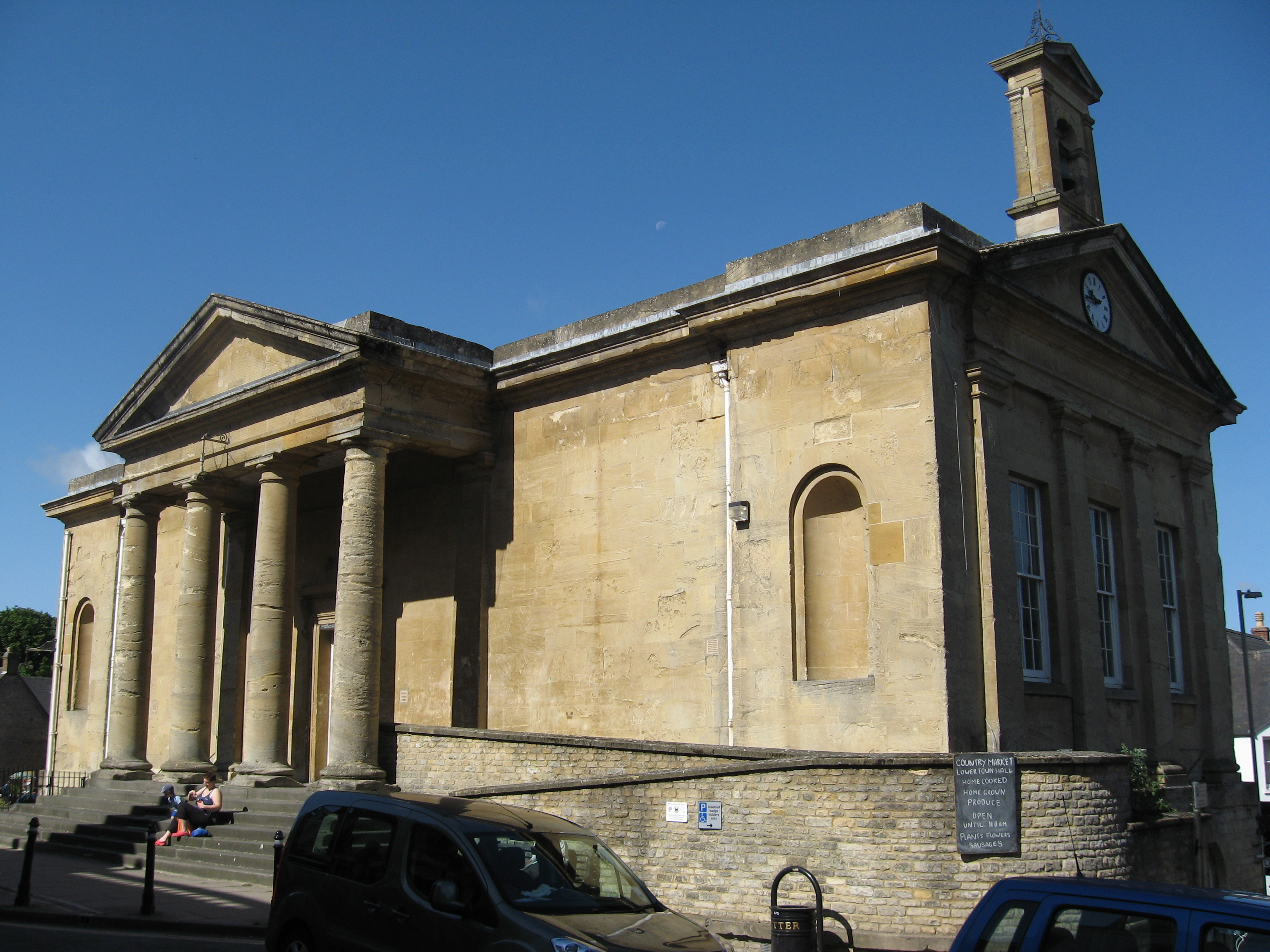 Town Hall, Chipping Norton, Oxfordshire, England